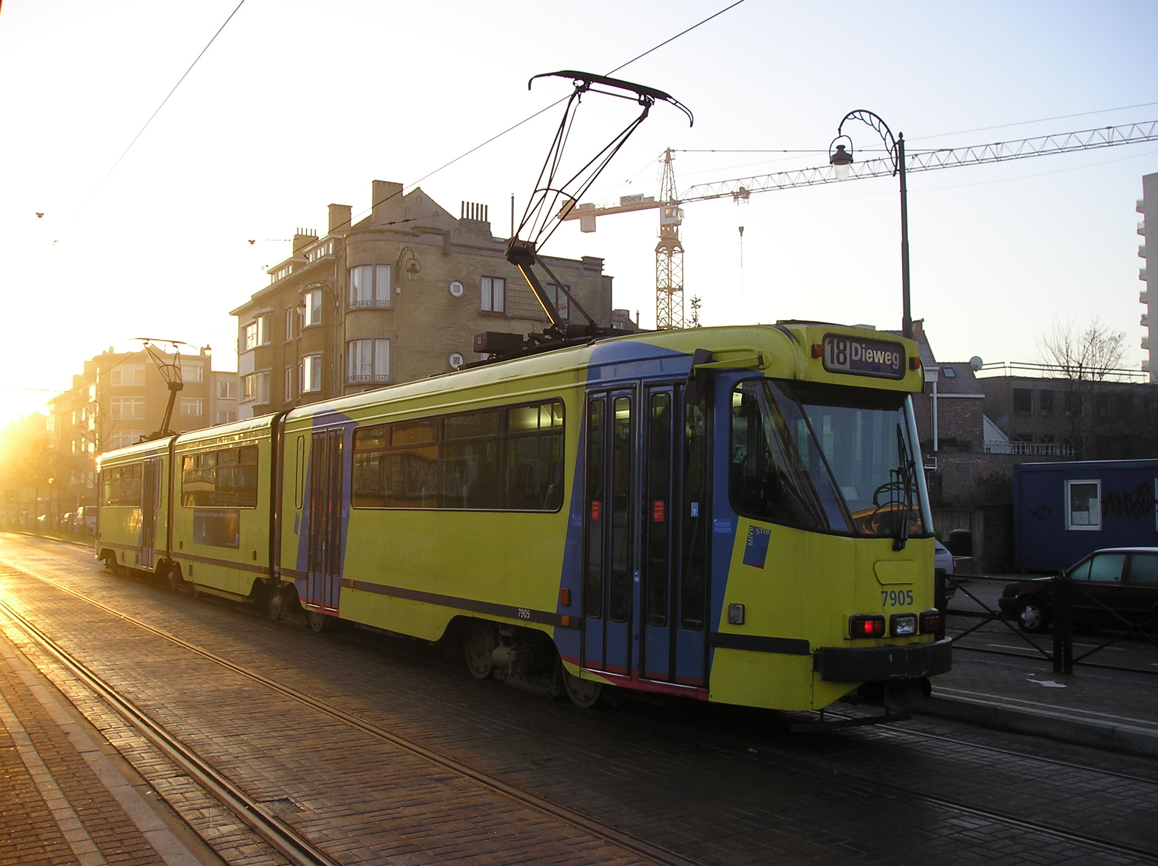 Triple articulated Brussels city tram, line 18, tram stop Belgica. Yellow-blue color scheme is the official color scheme of the Brussels public transport authority (MIVB (Duthch), STIB (French)).